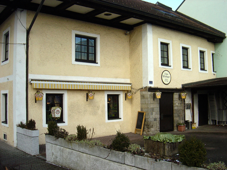 Haus Wiesinger at Michaelsbergstrasse 1, Leonding, Austria. Where Adolf Hitler's father, Alois, died in January 1903